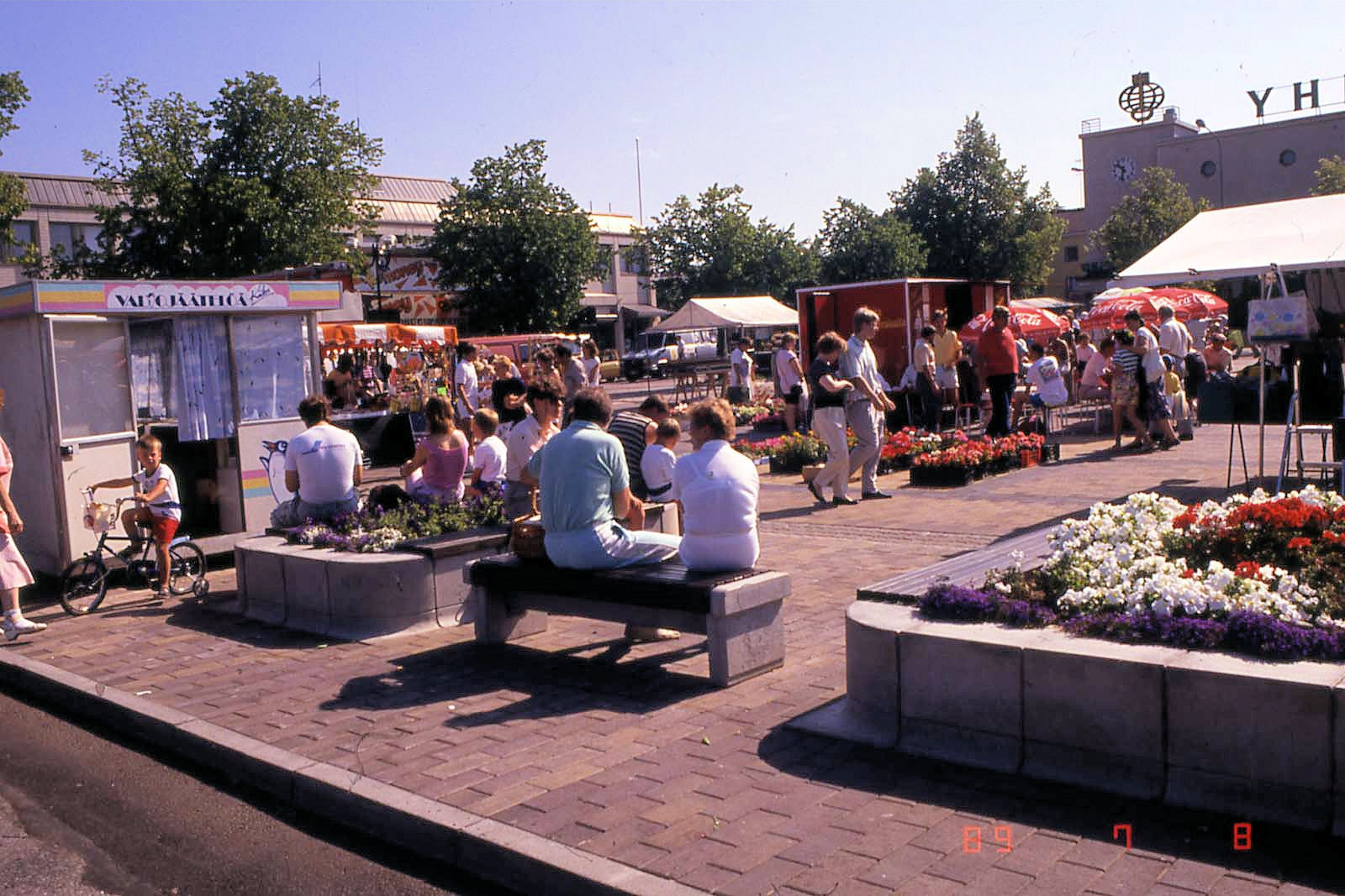 Heinola market place in Heinola, Finland